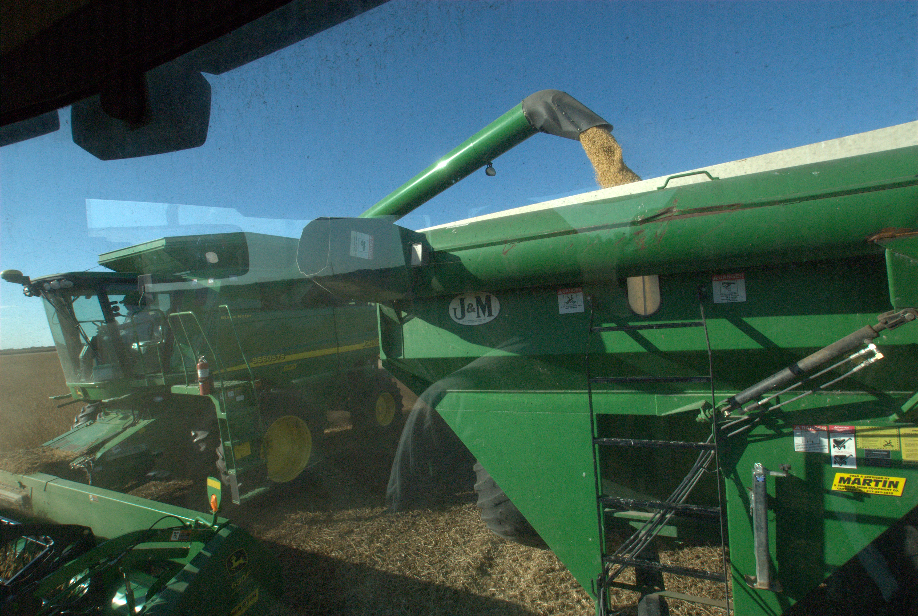 John Deere 9660STS combine harvester filling harvested soybeans into an auger wagon (J&M product) pulled by a tractor, somewhere in Illinois, USA. – You take for granted the amount of stress in the life of a typical farmer. Here we see the coordinating of a Combine and tractor driver to dump grain into the auger wagon as the combine is still inhaling grain. This makes running into that Lexus in the grocery store parking lot look like child's play, doesn't it?